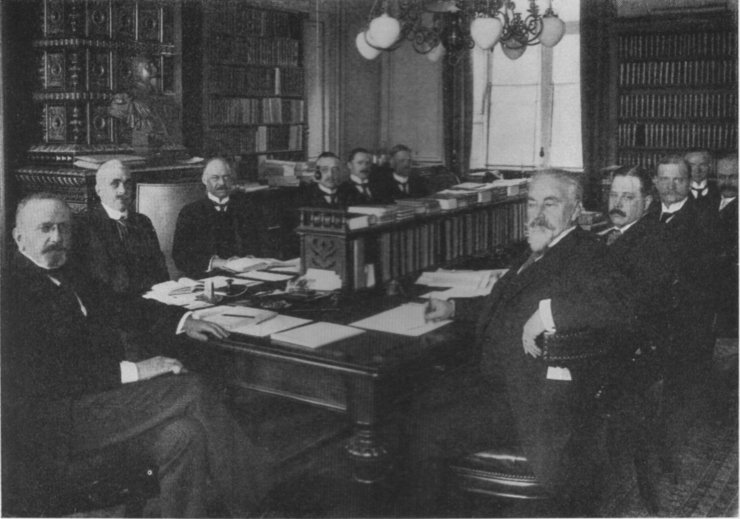 Cabinet of Hjalmar Hammarskjöld 1914-1917